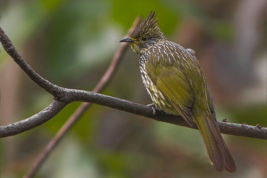 The species Striated Bulbul had been photographed during the birding trip of GoingWild in West Sikkim at Khangchendzonga National Park, West Sikkim, India on 18.02.2016.